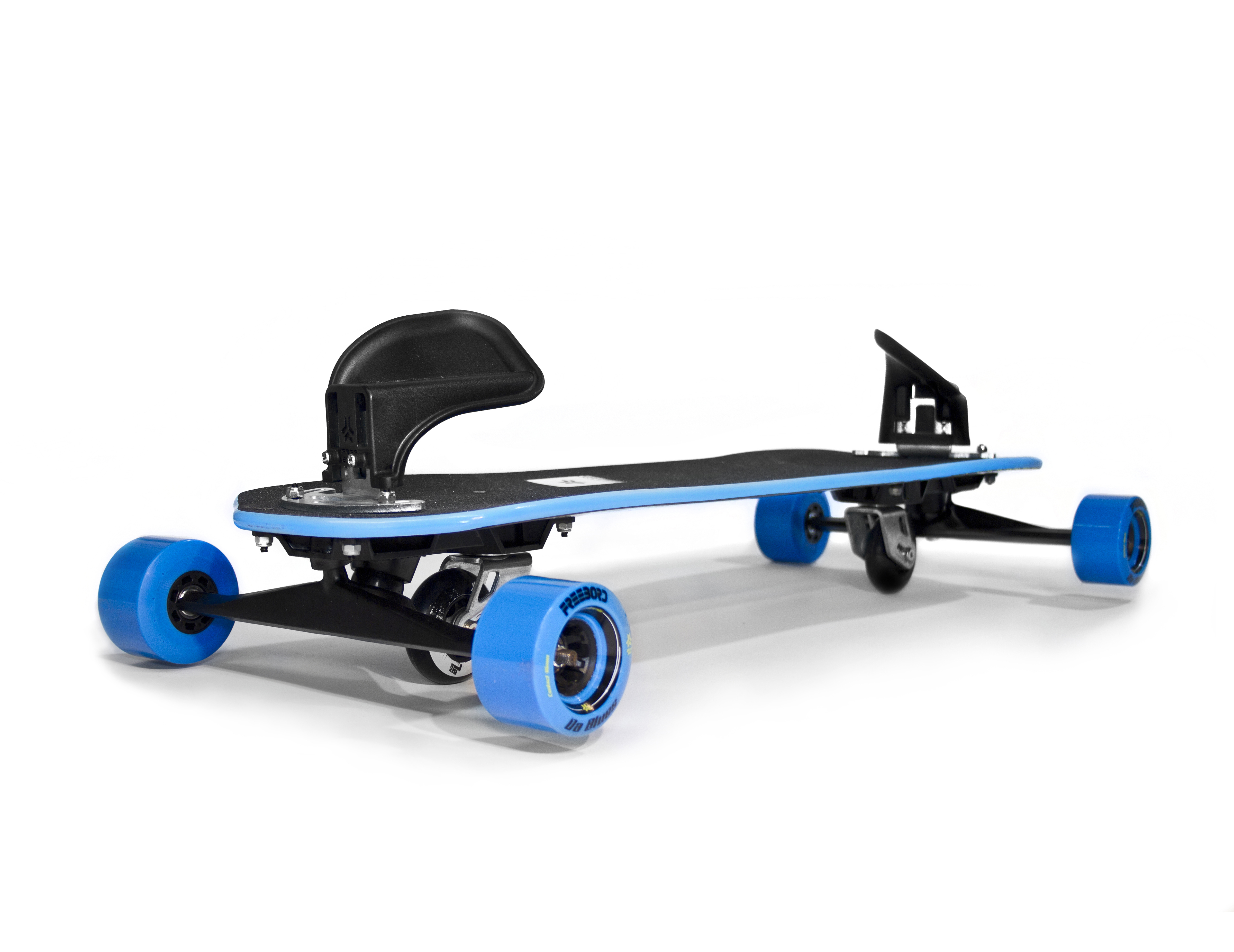 This is a picture of Freebord Mfg's 2013 Freebord, it has G3 trucks with DaBlues edge wheels and Freebord 72mm center wheels.